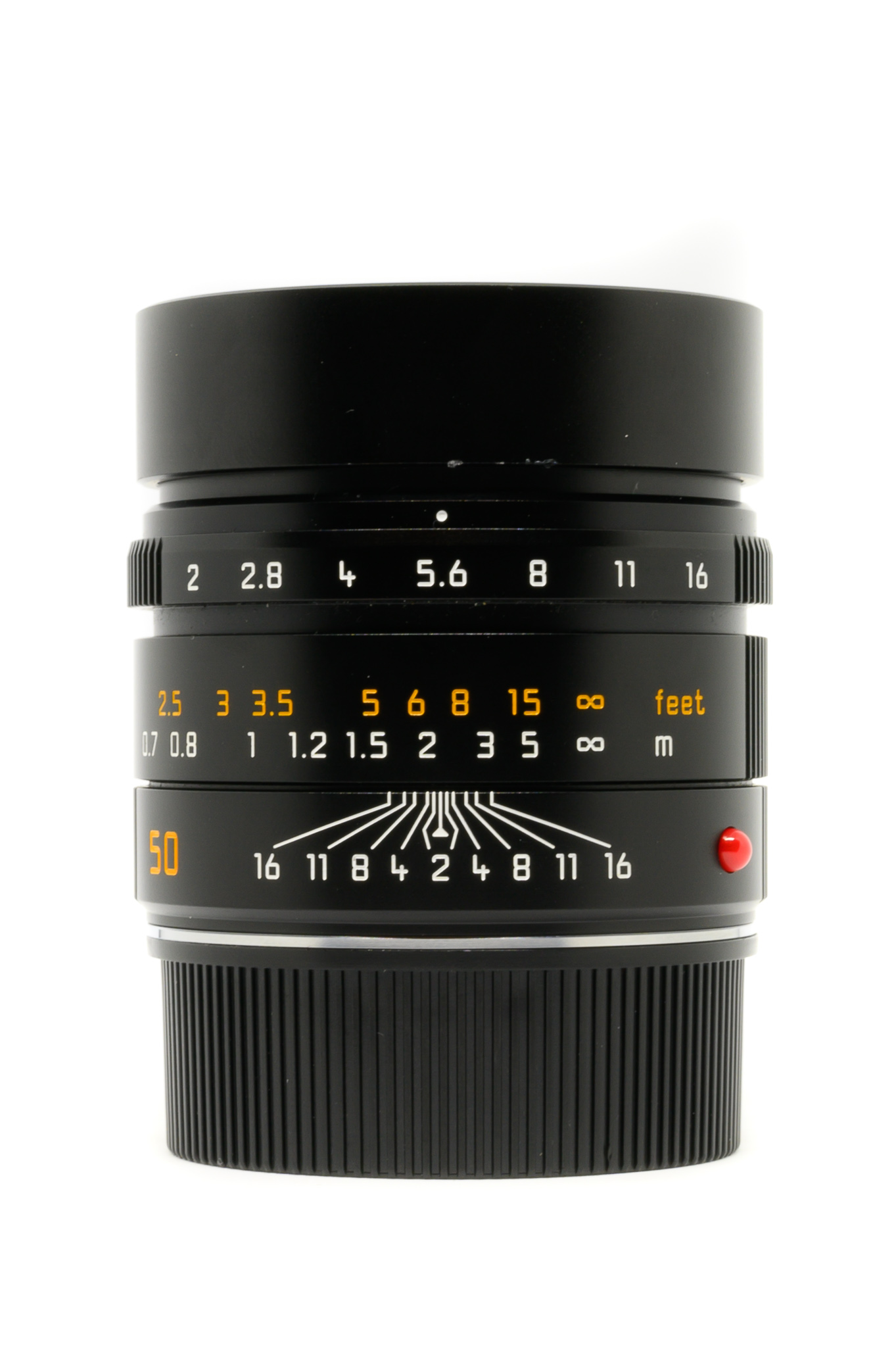 Leica APO Summciron-M 50mm f2